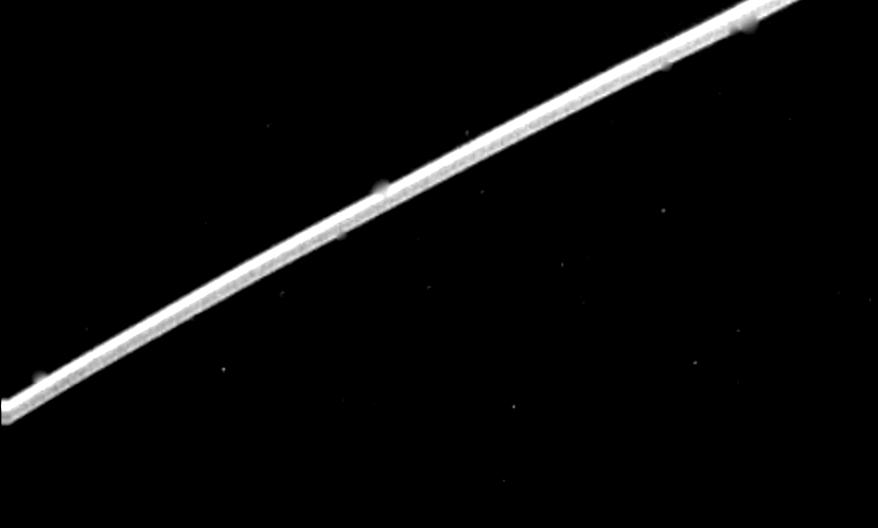 Original Caption Released with Image: Voyager 2 acquired this high-resolution image of the epsilon ring of Uranus on Jan. 23, 1986, from a distance of 1.12 million kilometers (690,000 miles). This clear-filter image from Voyager's narrow-angle camera has a resolution of about 10 km (6 mi). The epsilon ring, approximately 100 km (60 mi) wide at this location, clearly shows a structural variation. Visible here are a broad, bright outer component about 40 km (25 mi) wide; a darker middle region of comparable width; and a narrow, bright inner strip about 15 km (9 mi) wide. The epsilon-ring structure seen by Voyager is similar to that observed from the ground with stellar-occultation techniques. This frame represents the first Voyager image that resolves these features within the epsilon ring. The occasional fuzzy splotches on the outer and inner parts of the ring are artifacts left by the removal of reseau marks (used for making measurements on the image). The Voyager project is managed for NASA by the Jet Propulsion Laboratory.